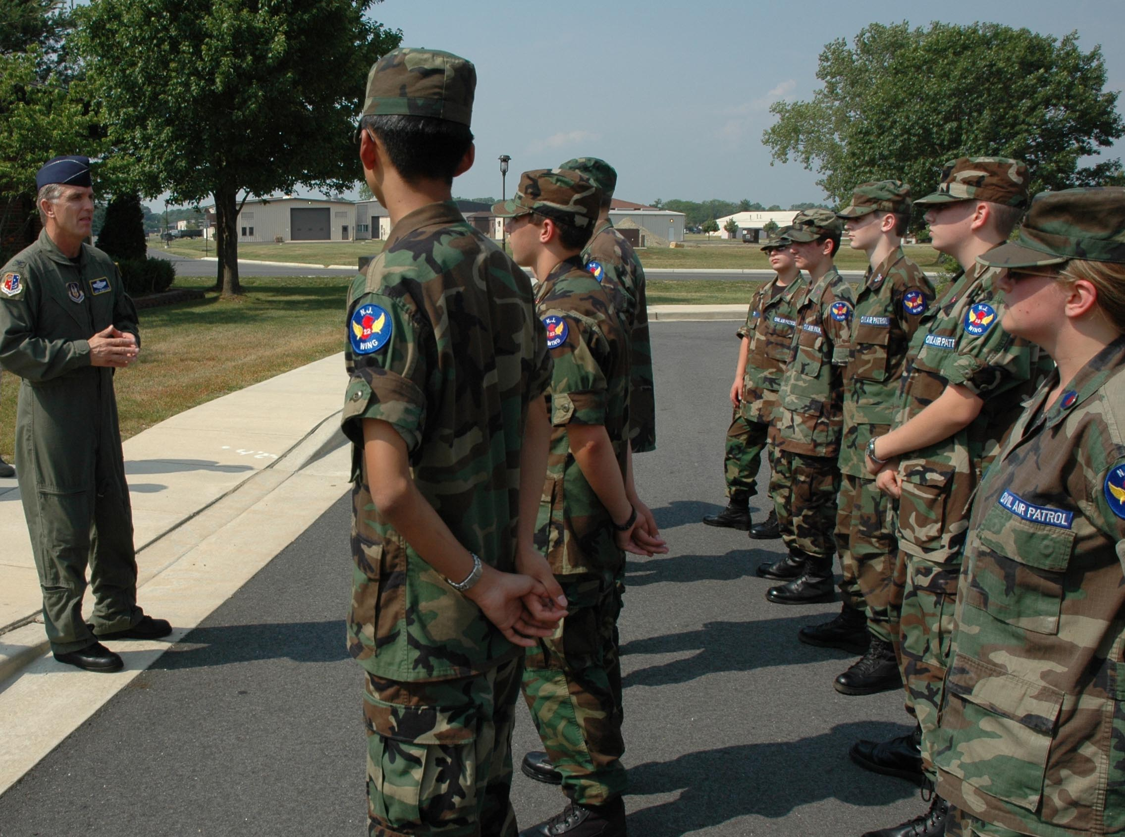 MCGUIRE AIR FORCE BASE, N.J. -- Civil Air Patrol cadets meet Air Force Reserve leadership during the cadet's recent visit to McGuire Air Force, N.J. The South Jersey cadets spent the day touring several units under the mentorship of 514th AIr Mobility Wing first sergeants. (U.S. Air Force photo/Master Sgt. Donna T. Jeffries)